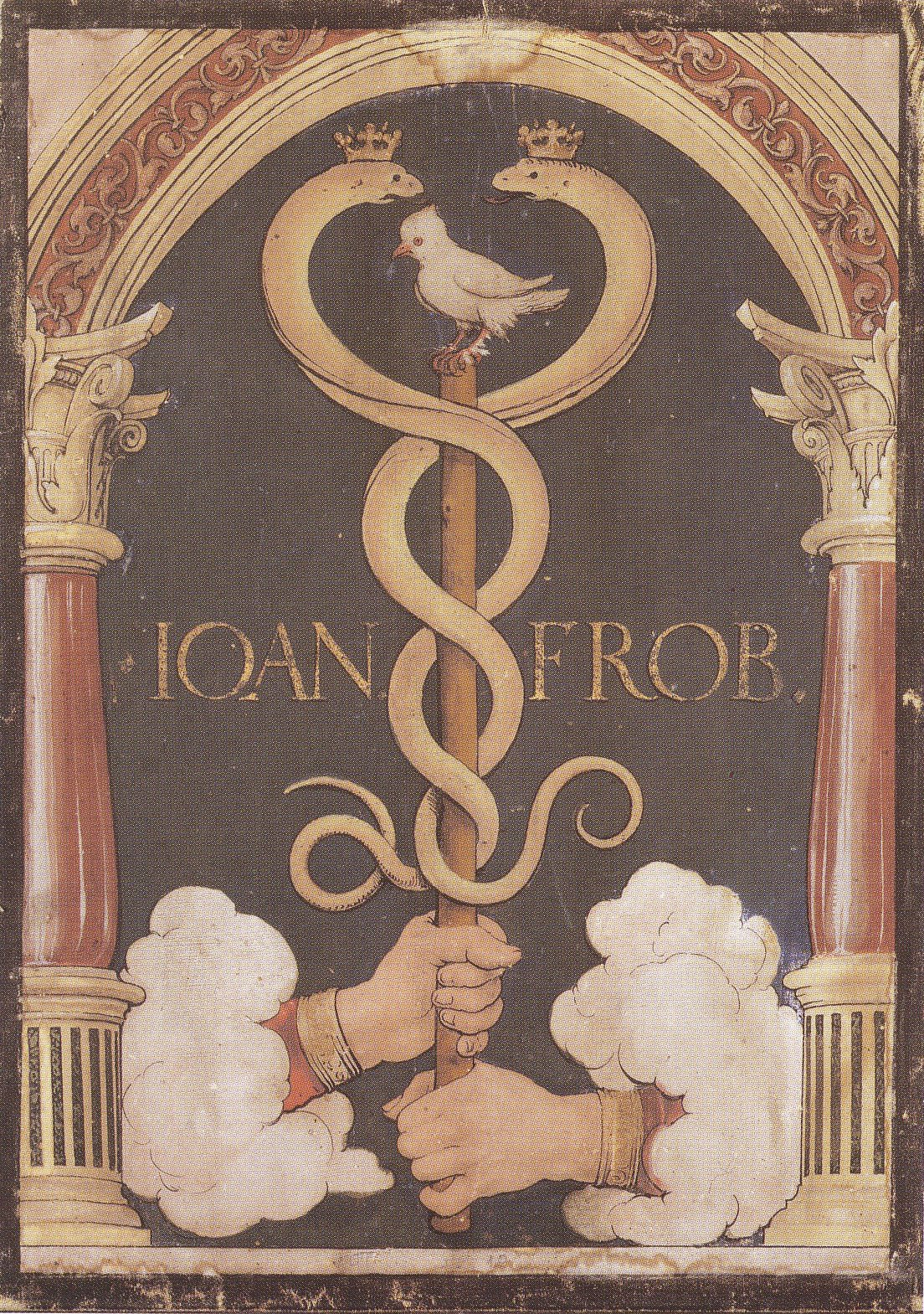 Printer's Device of Johannes Froben. Tempera on canvas, heightened with gold, 44 × 31 cm, Kunstmuseum Basel. Johann (Latin Johannes) Froben (c. 1460–1527) was a noted printer in Basel, for whom Holbein worked and whose portrait he painted. Holbein probably painted the device to hang in Froben's printing shop; and it has survived because Froben's grandson gave it to the Holbein collector Basilius Amerbach in 1583. According to art historian John Rowlands: "The advice of St Matthew, 10:16, is symbolized by the pagan image of Mercury's staff, the symbol of concord, on which a dove is perched between two serpents: "Behold, I send you forth as sheep in the midst of wolves: be ye therefore wise as serpents, and harmless as doves".[1] Mercury is traditionally regarded as the god of commerce and trade. Holbein did not invent the device, which Froben had used in his publications from 1517. References ↑ John Rowlands, Holbein: The Paintings of Hans Holbein the Younger, Boston: David R. Godine, 1985, ISBN 0879235780, p. 128.